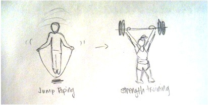 proper warm up is a way to prevent rhabdomyolysis